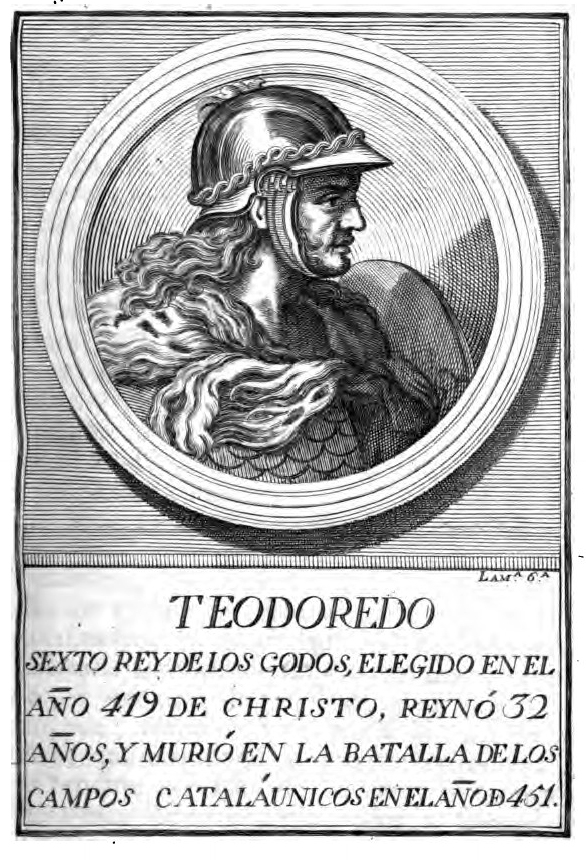 A poster of TEODOREDO or TEODORICO I, Visigoth king, n° 6 in the chronological order of the book digitalized by Google since the bookshop in the University of Oxford.